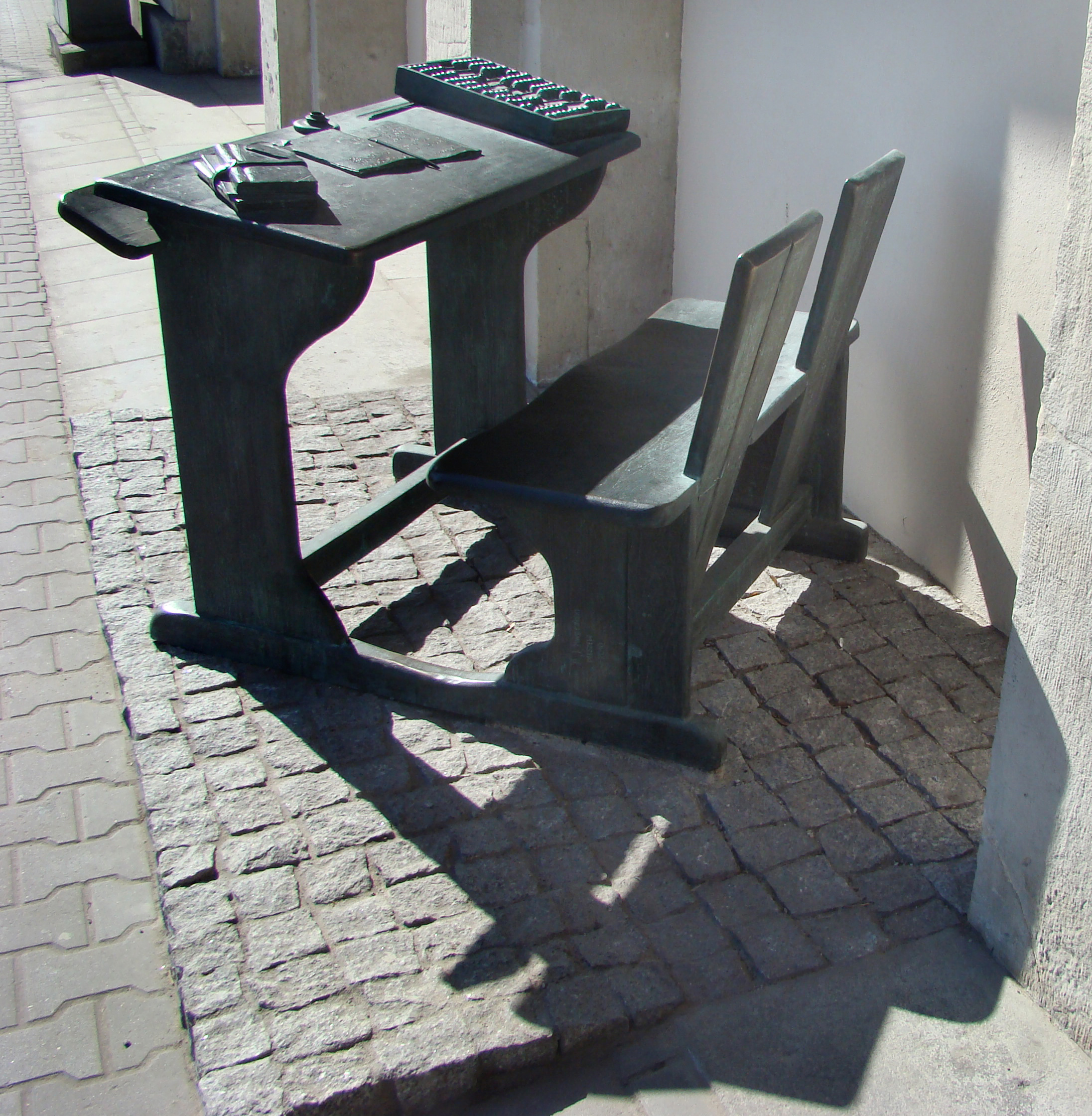 School desk monument, Warsaw